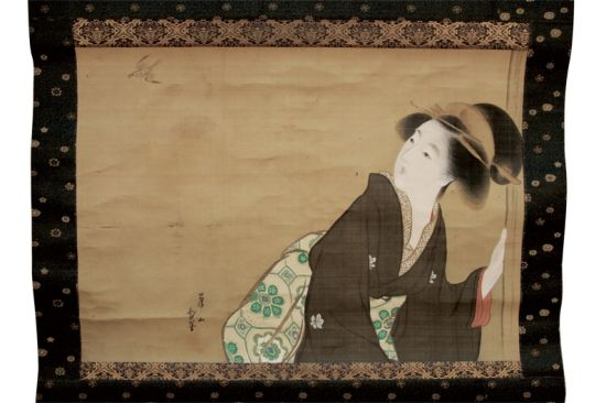 A painting of Watanabe Kazan. Watanabe Kazan was a Japanese painter, scholar and statesman member of the samurai class.